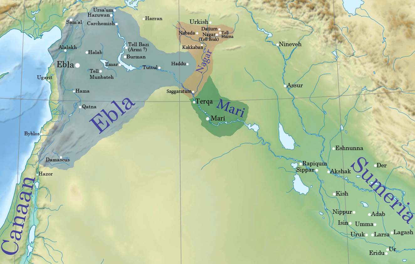 Ebla' first kingdom at its height c. 2340 BC. The first Eblaite kingdom extended from Urshu in the north,1 to Damascus area in the south.2 And from Phoenicia and the coastal mountains in the west,3 4 to Tuttul,5 and Haddu in the east.6 The eastern kingdom of Nagar controlled most of the Khabur basin from the river junction with the Euphrates to the northwestern part at Nabada.7 Page 101